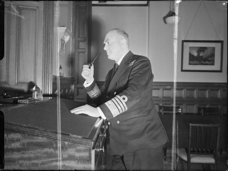 Photograph of Deputy First Sea Lord, Admiral Sir Charles E Kennedy-Purvis, KCB.